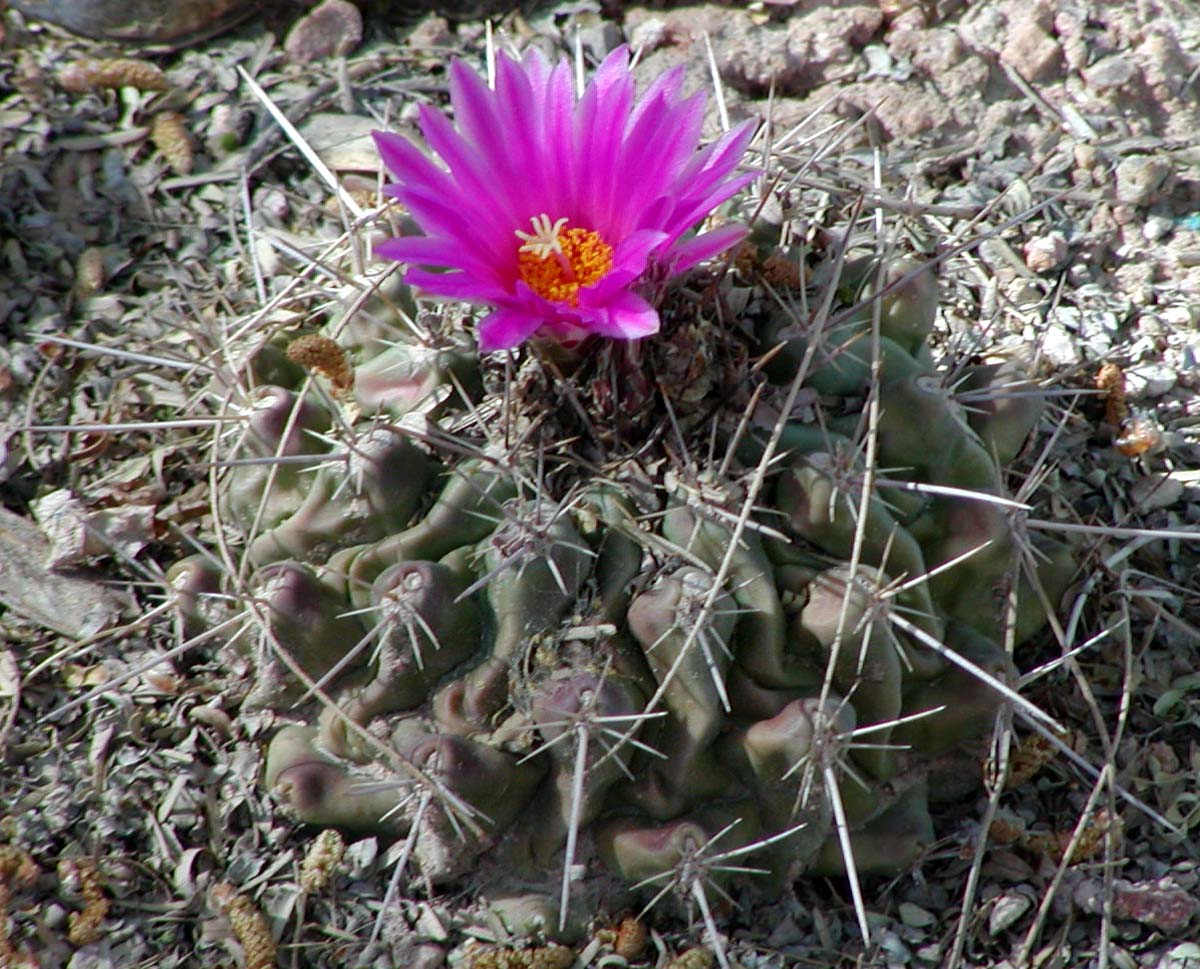 Photo of Thelocactus rinconensis at the Desert Demonstration Garden in Las Vegas